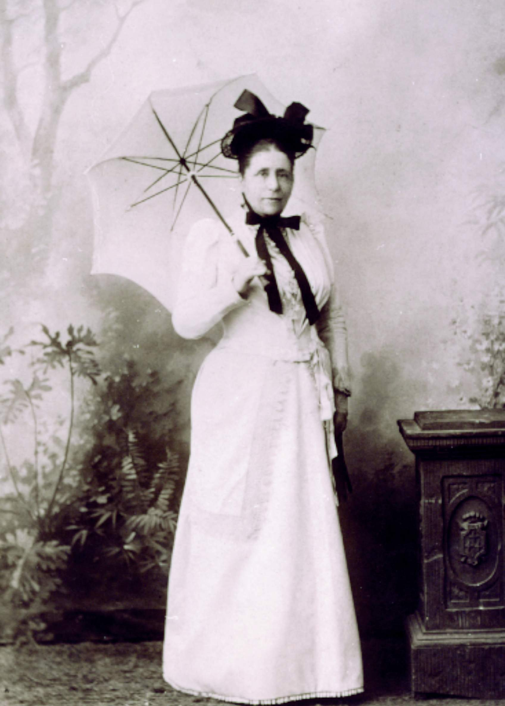 Photographic portrait of Scottish philanthropist Isabella Elder.